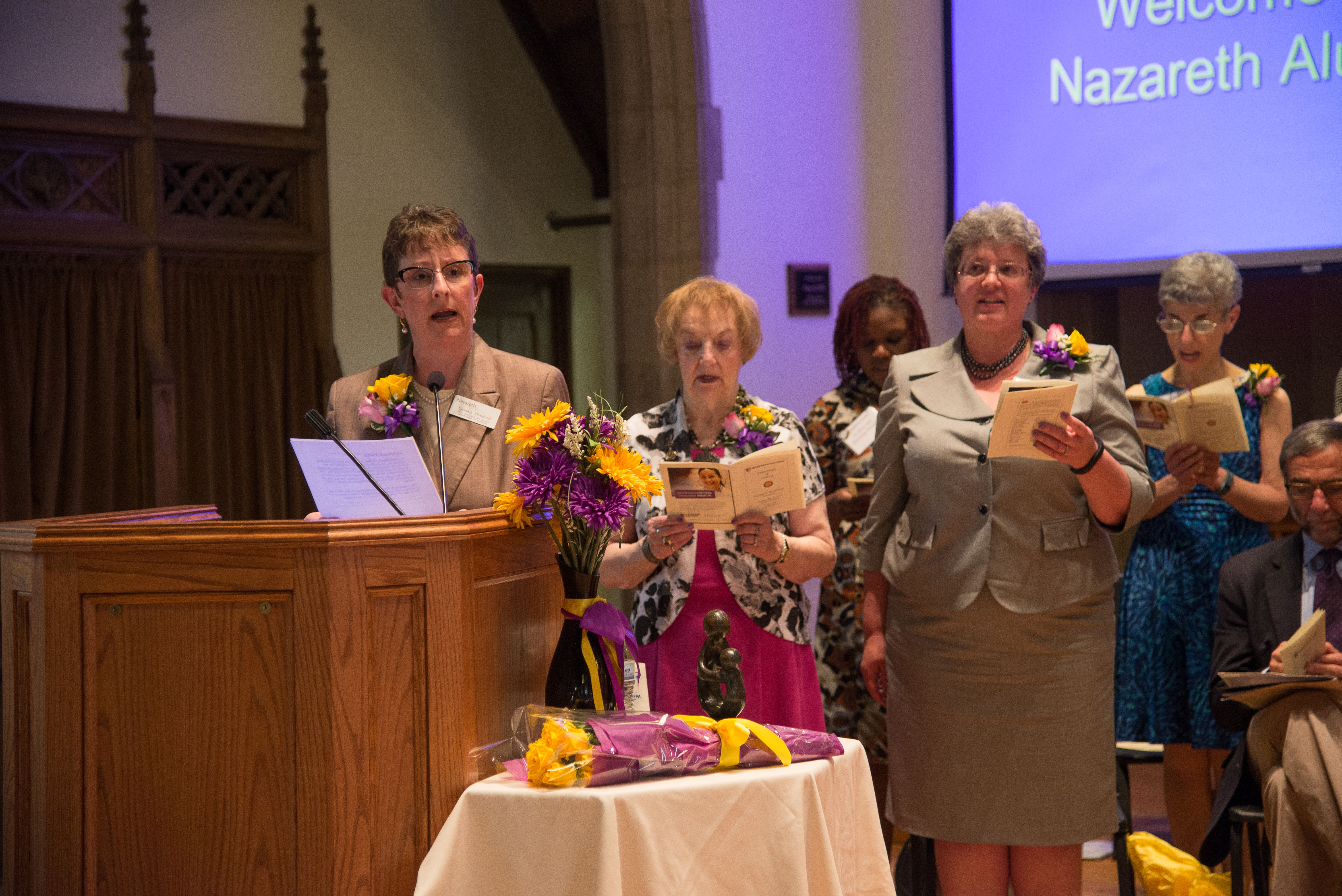 Nurse pinning ceremony in Linehan Chapel